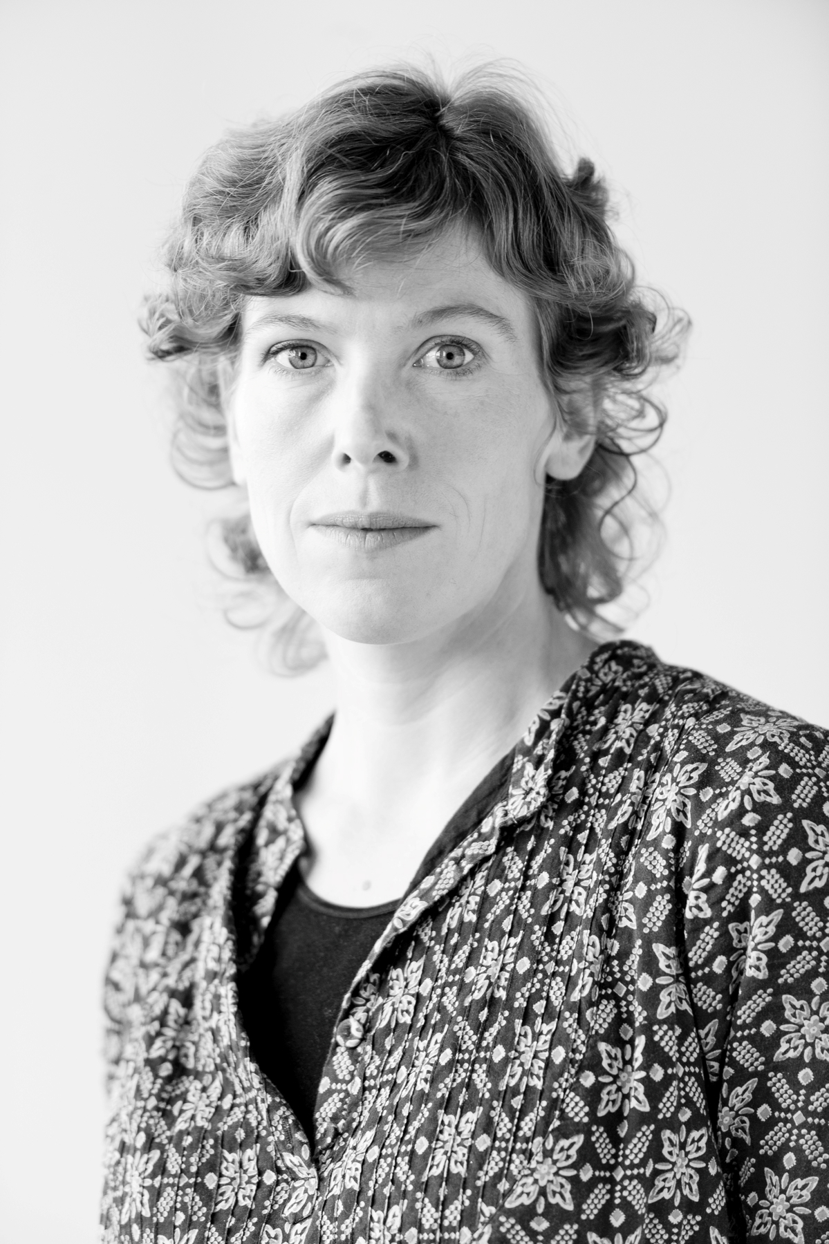 Andrea Kroksnes. National Museum Oslo, 2011